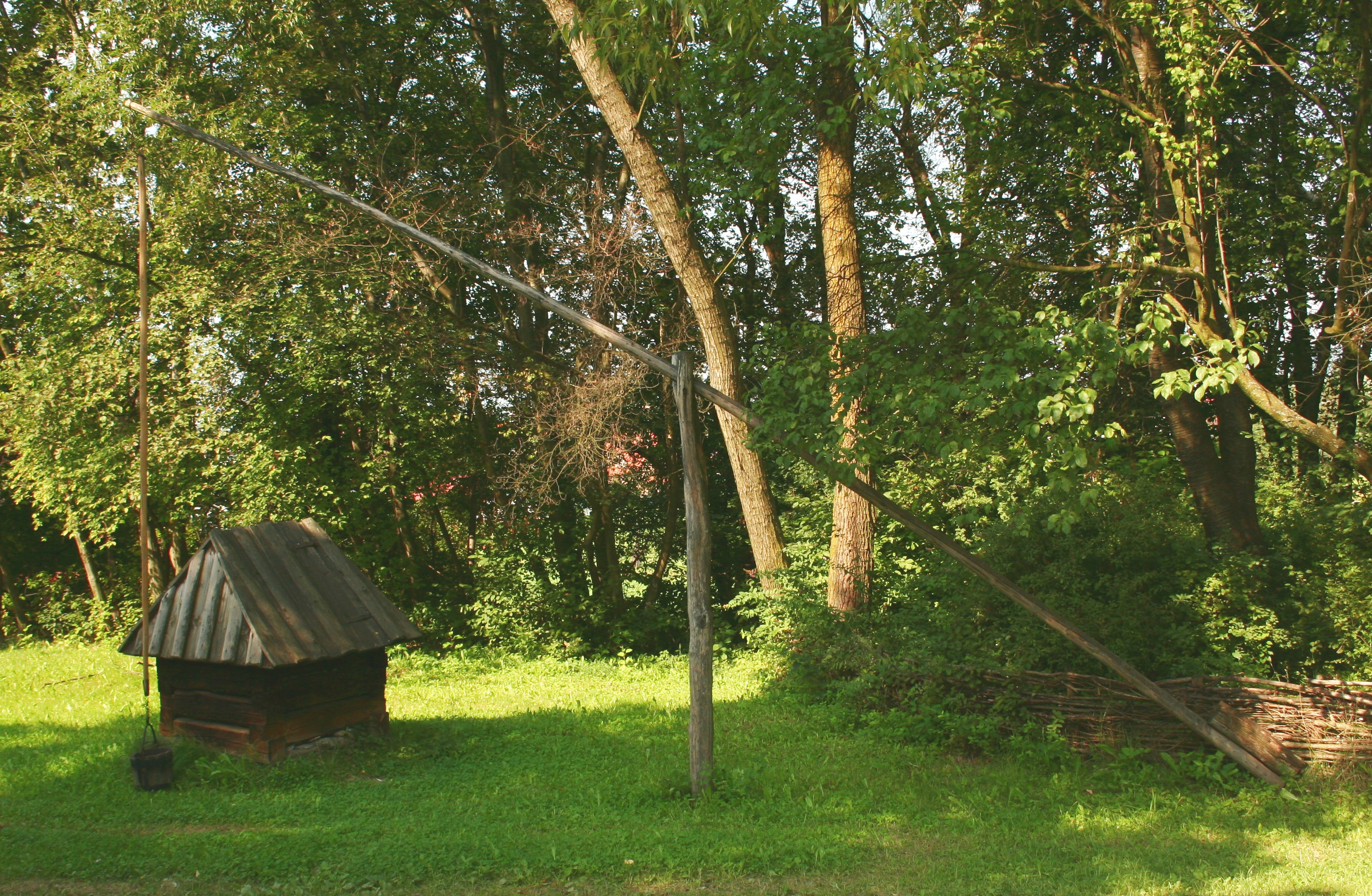 Skansen in Nowy Sącz, Poland